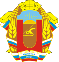 Agapovsky rayon (Chelyabinsk oblast), coat of arms (1998)